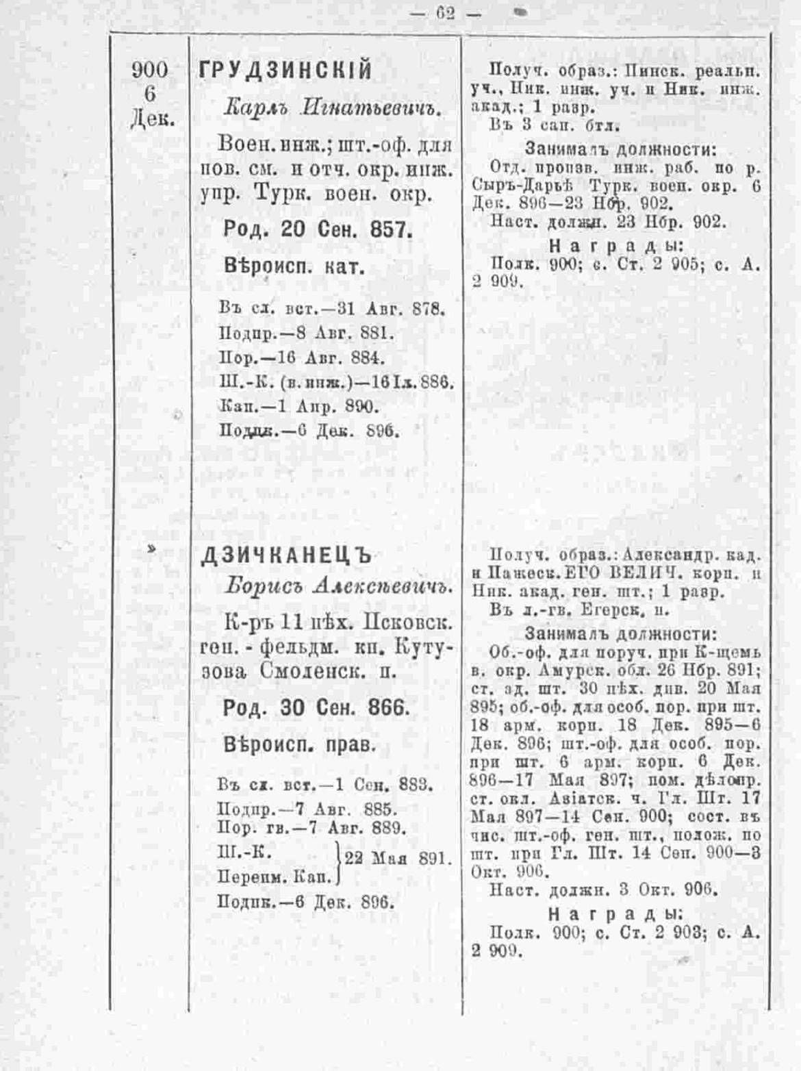 List of colonels of the Russian Imperial Army 1910, page 62.